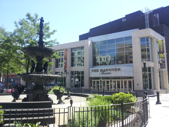 Exterior view of the Hanover Theatre, showing the main entrance and nearby fountain.